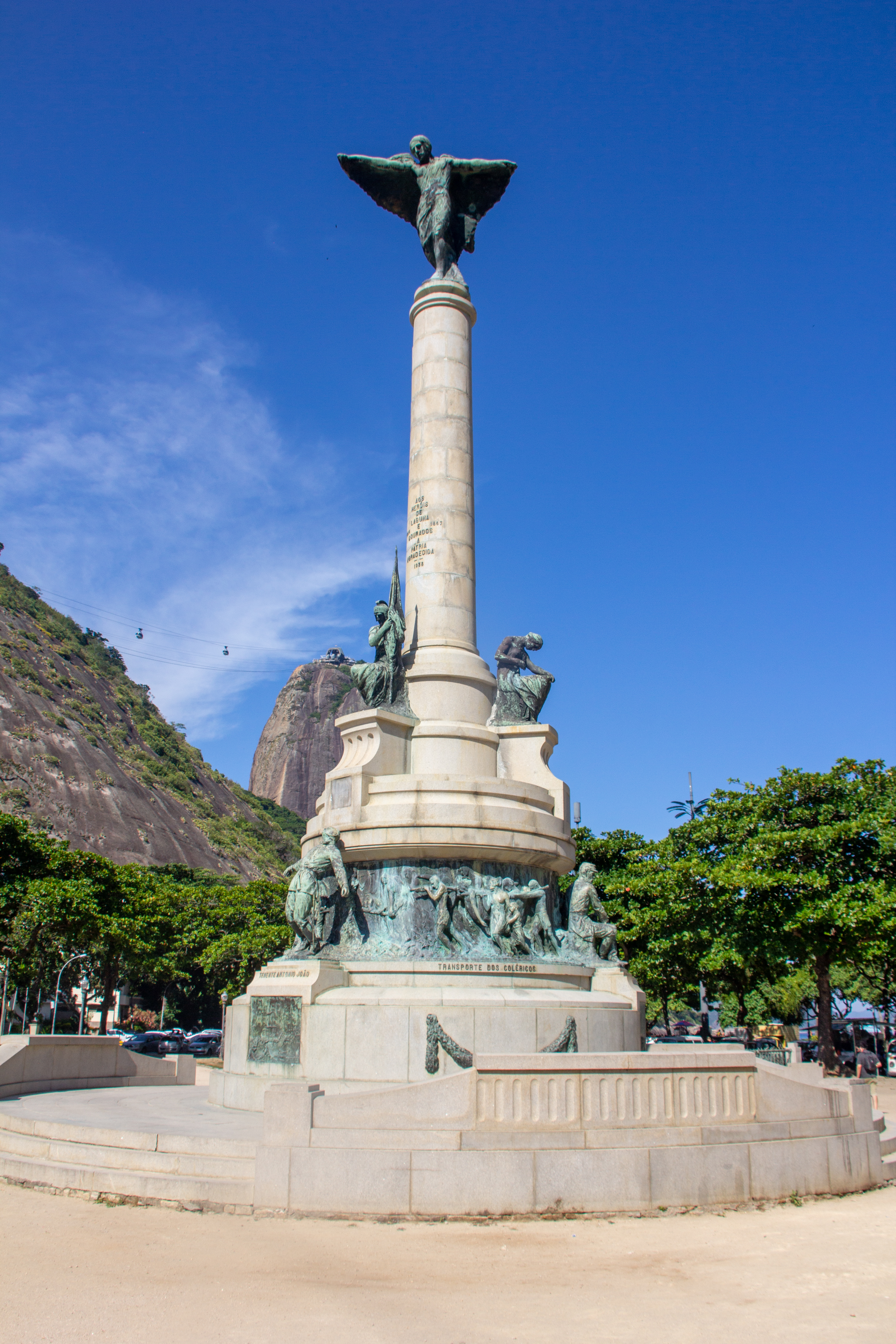 At Rio de Janeiro